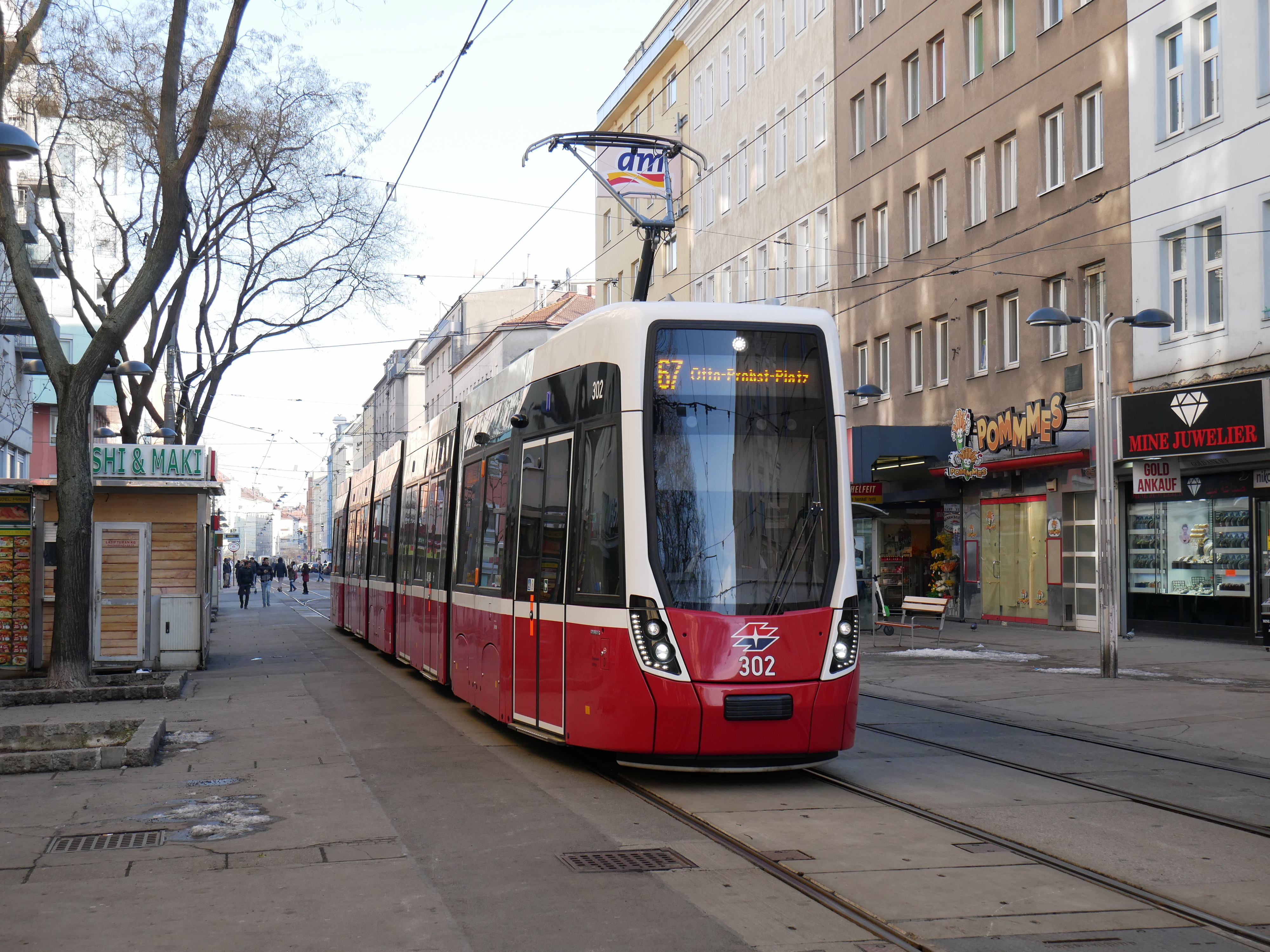 Wiener Linien, car 302 on line 67 in the Quellenstraße near Reumannplatz.